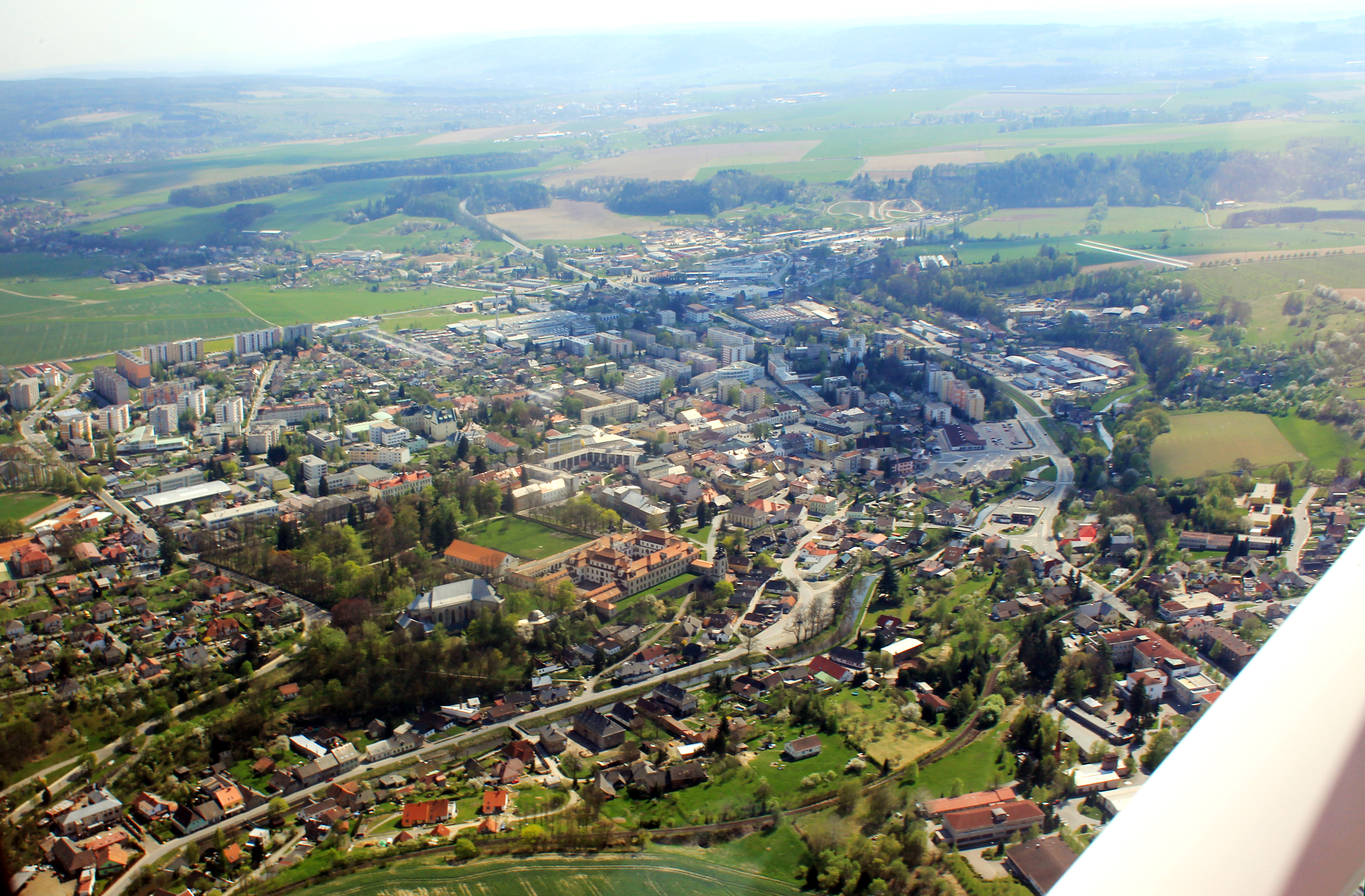 Town Rychnov nad Kněžnou from air, eastern Bohemia, Czech Republic